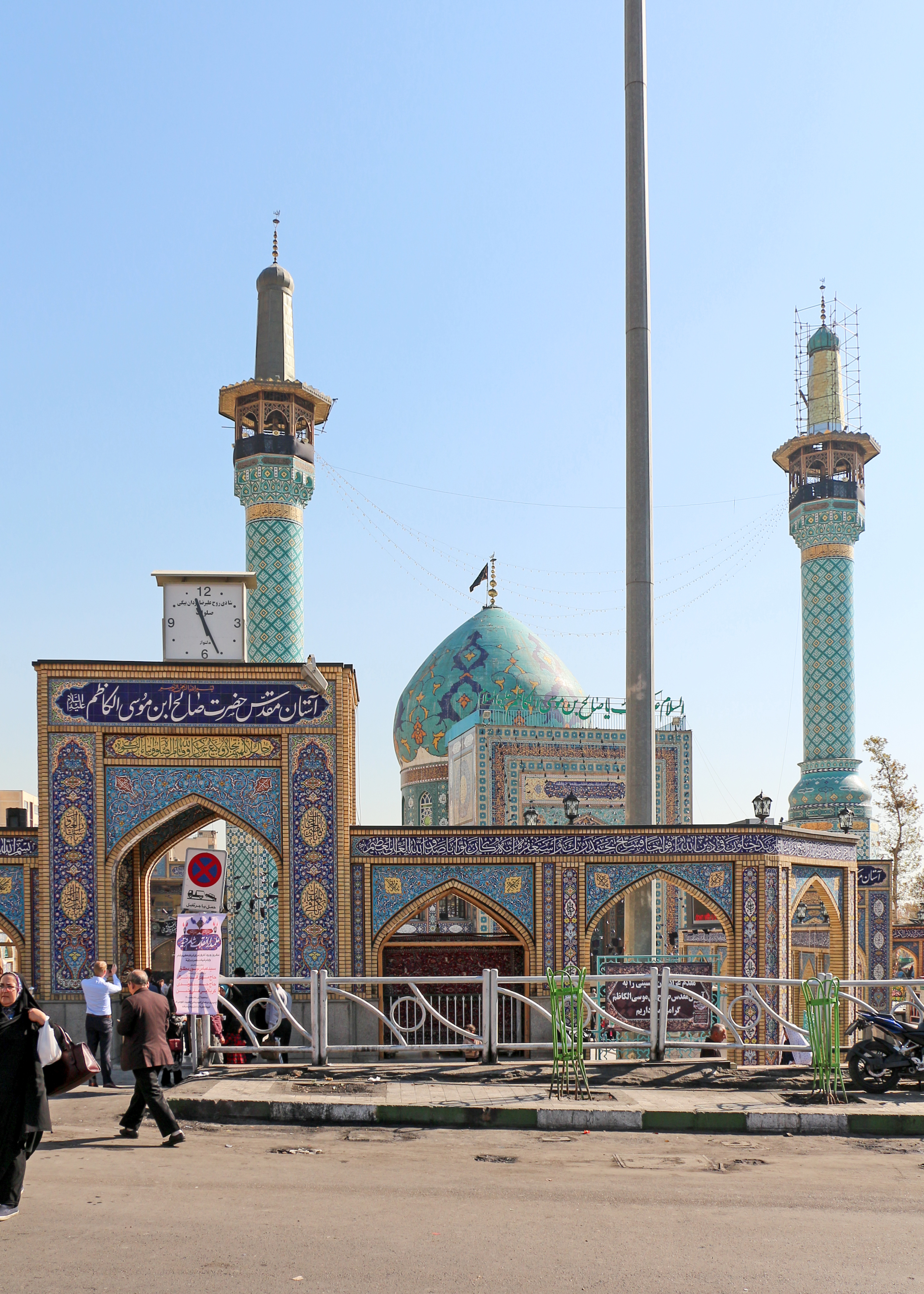 Imamzadeh Saleh, Tehran, Iran